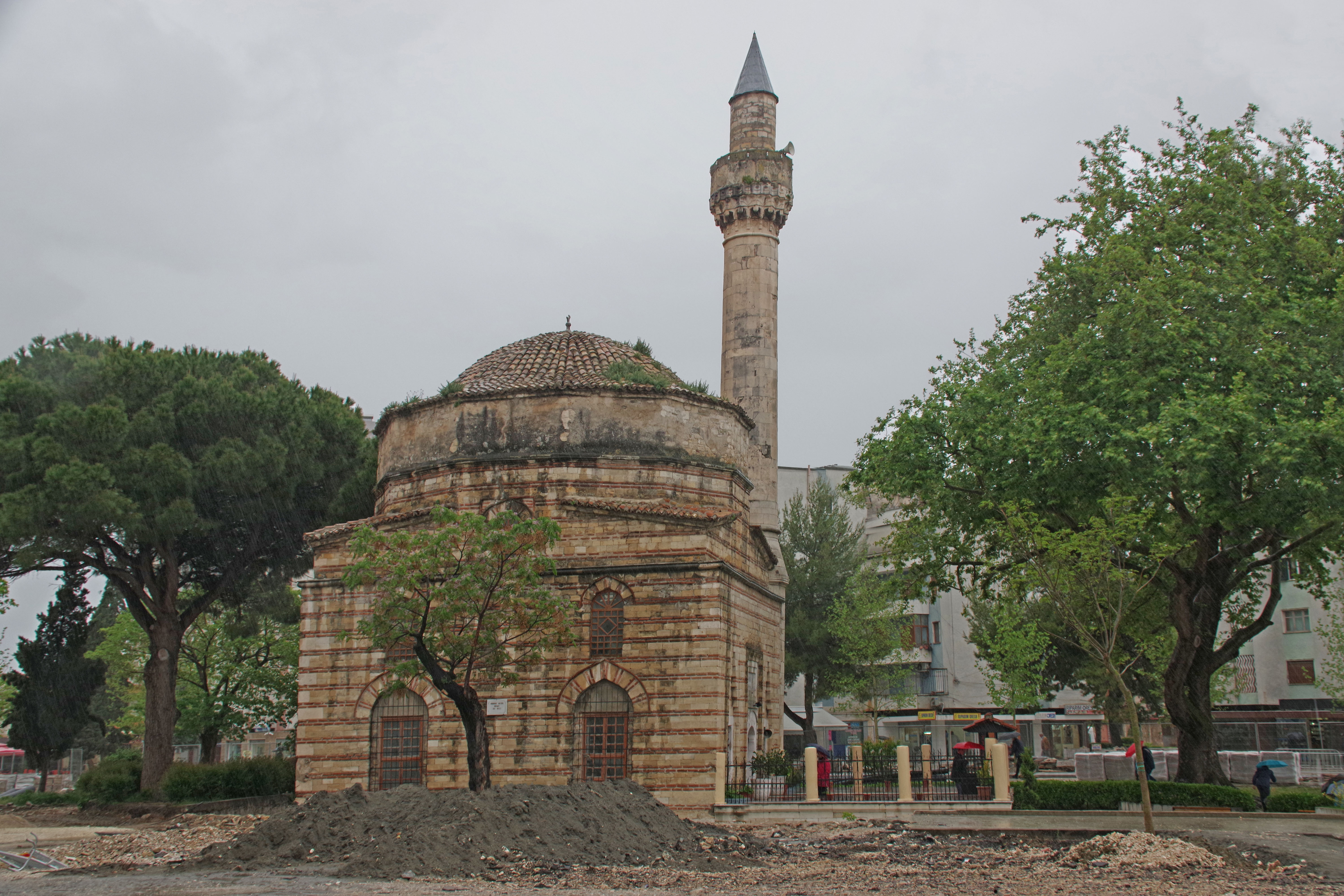 Murachi Mosque, Vlora, Albania